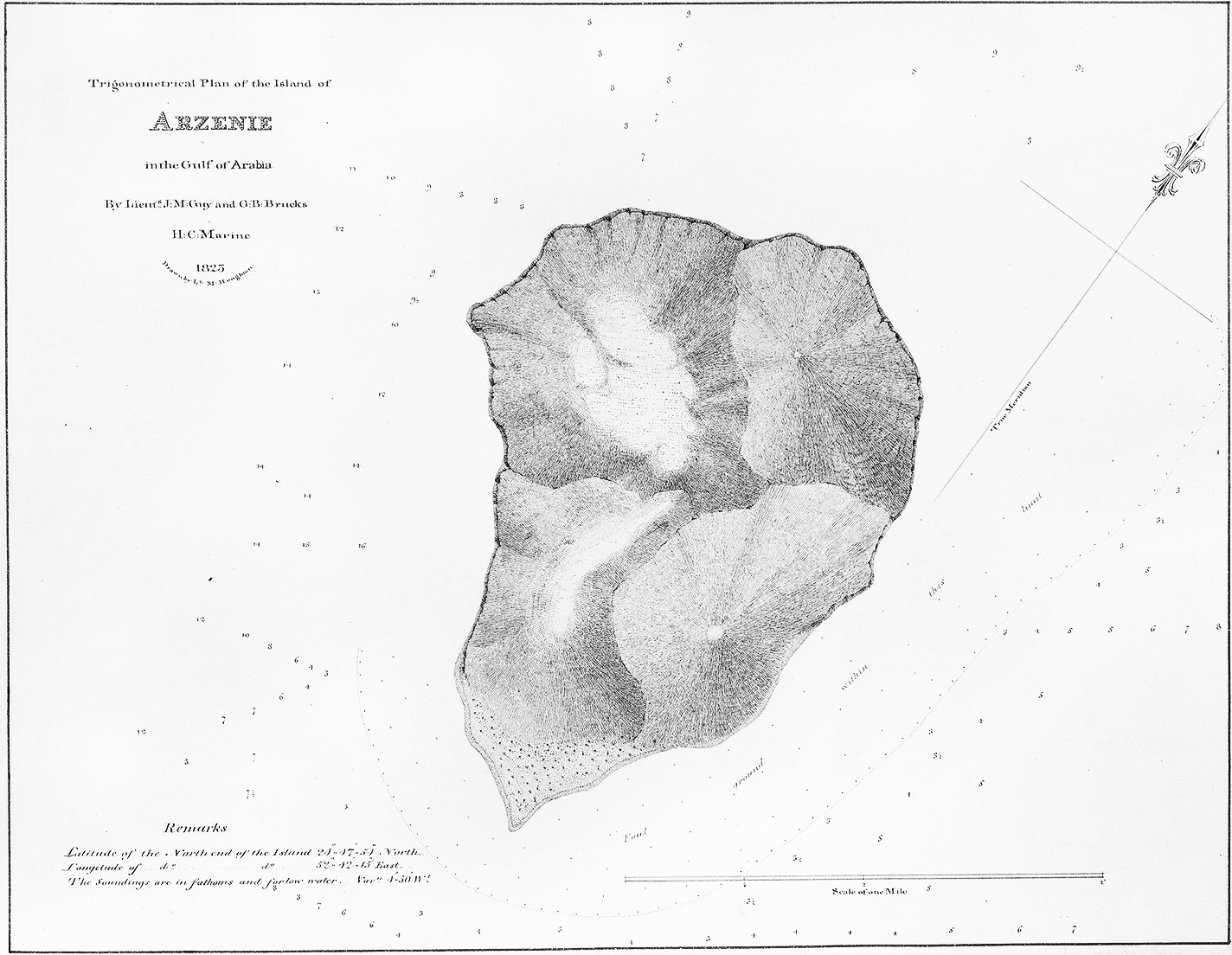 Map of Arzanah Island, Persian Gulf, Abu Dhabi, United Arab Emirates